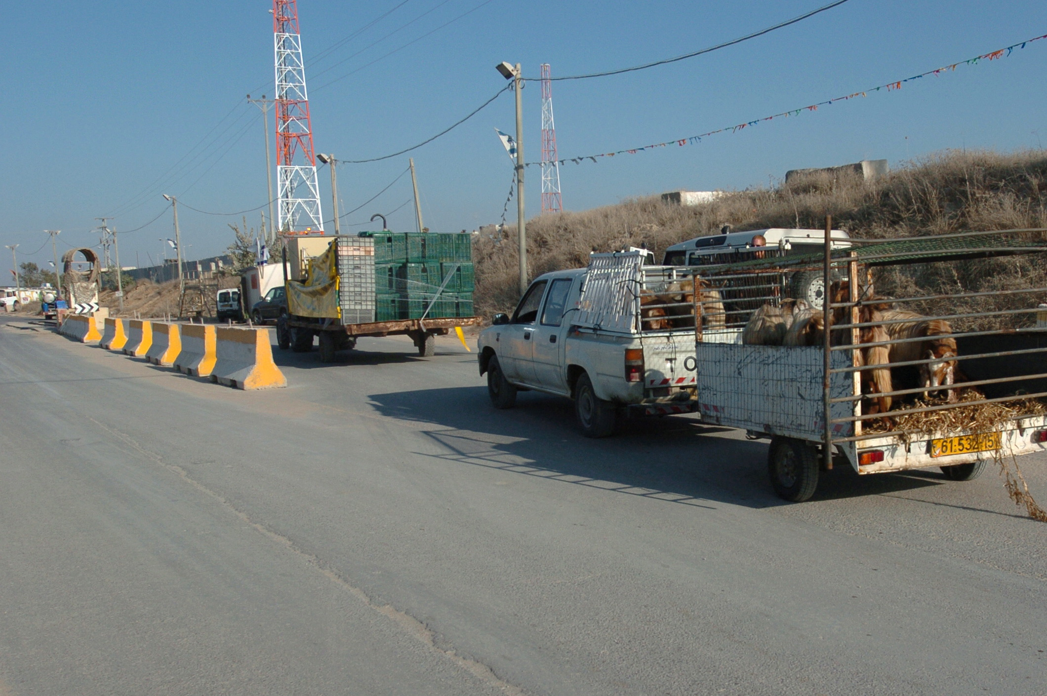 August 16, 2005. Israelis leaving the Gaza Strip through the Kisufim Crossing. The events shown took place as part of the Gaza Disengagement in the summer of 2005.